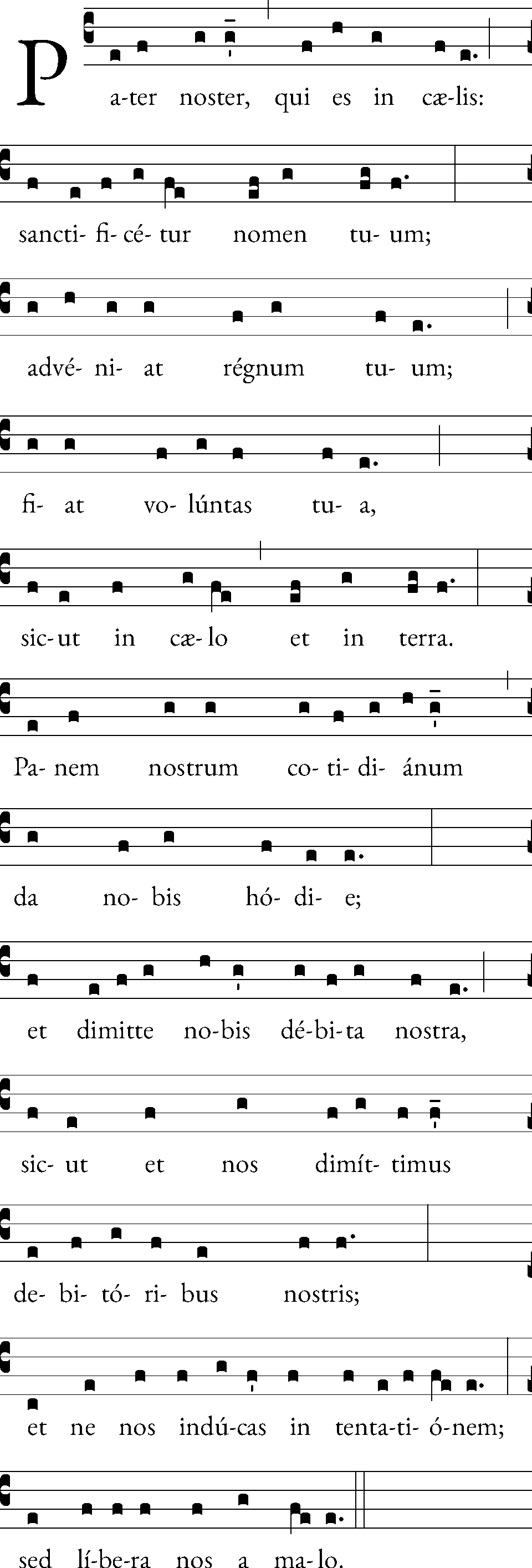 Pater Noster in Cantus Planus